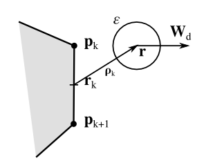 Sketch of diffusive surface-vortex interaction in method of viscous vortex domains